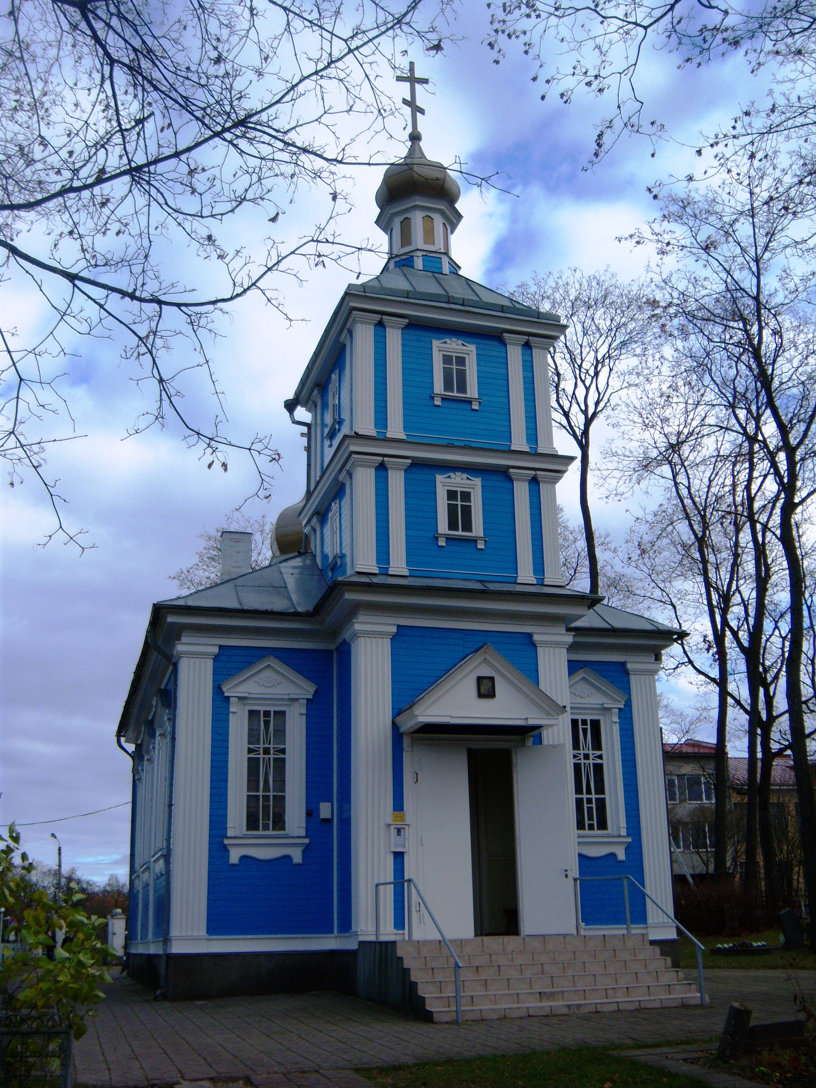 Lord's Resurrection Orthodox Church, Panevėžys, Lithuania